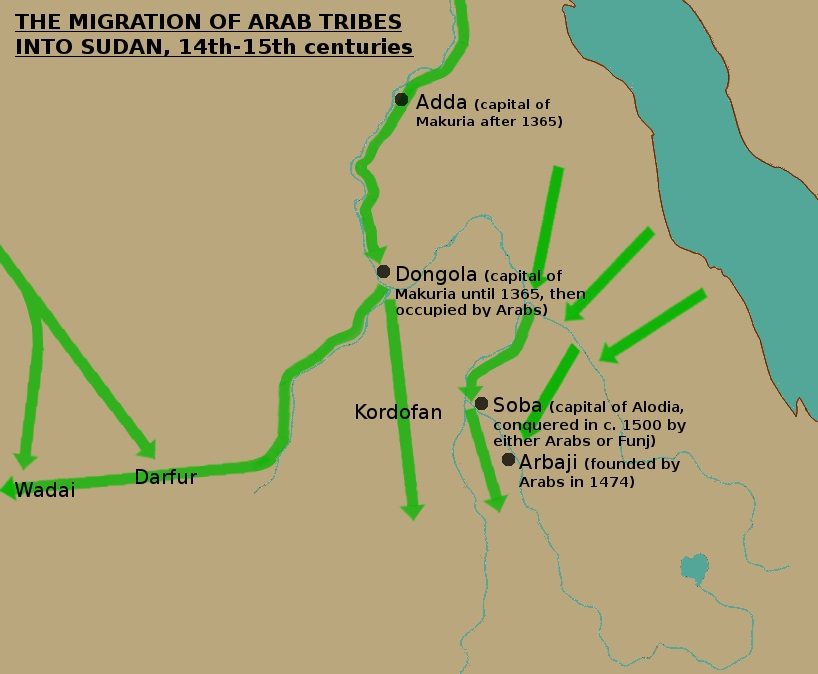 Map depicting the routes used by the Arab tribes to push into Sudan (14th-15th centuries). Literature: Hasan (1967): "The Arabs and the Sudan. From the seventh to the early sixteenth century" Braukämper (1992): "Migration und ethnischer Wandel: Untersuchungen aus der östlichen Sudanzone" Adams (1977): "Nubia. Corridor to Africa"